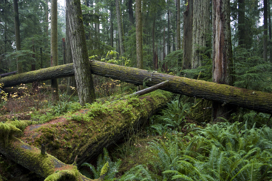 Cathedral Grove, MacMillan Provincial Park, Vancouver Isl. near Port Alberni